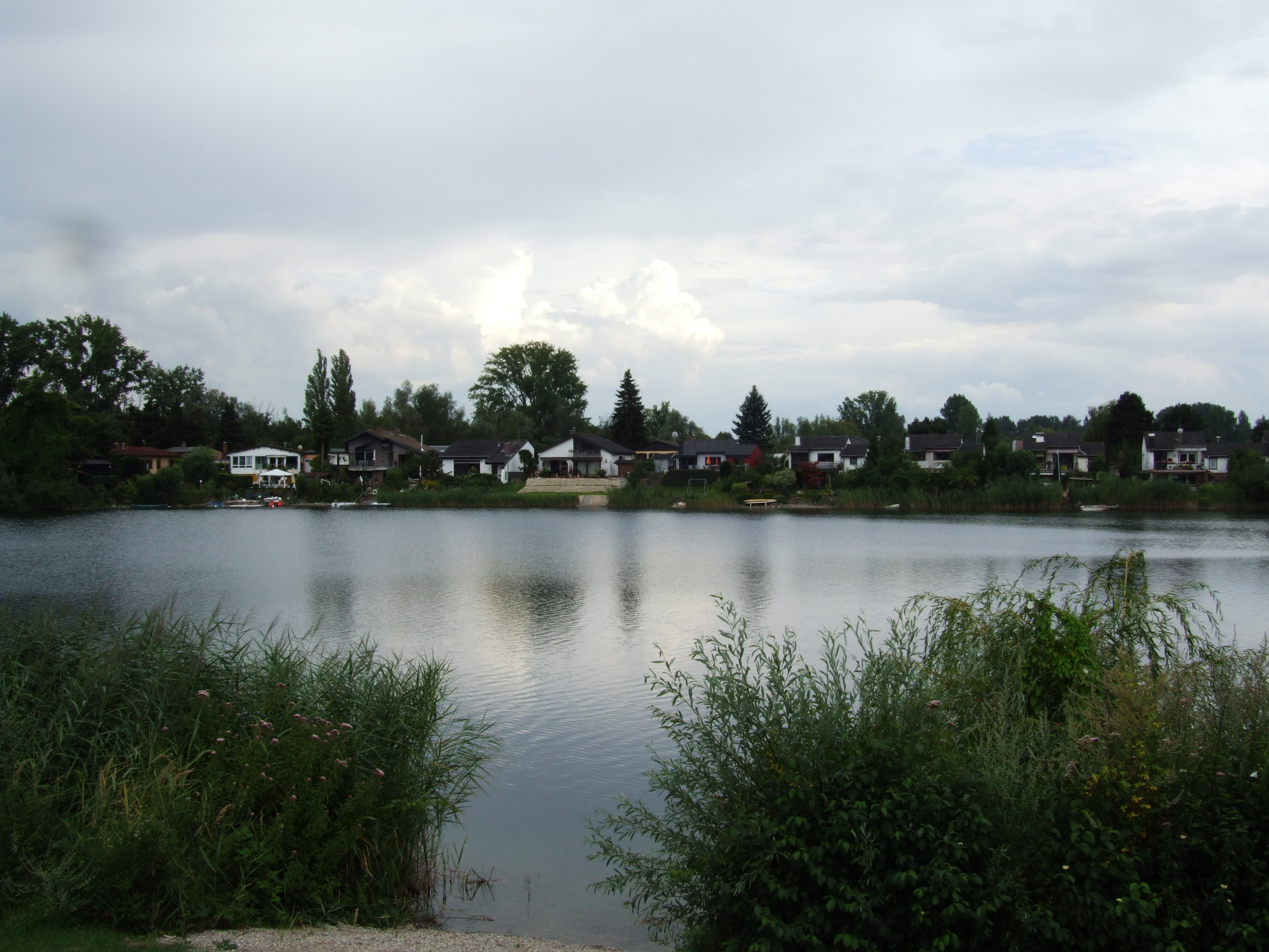 lake Mondse, Binsfeld, Speyer, Germany